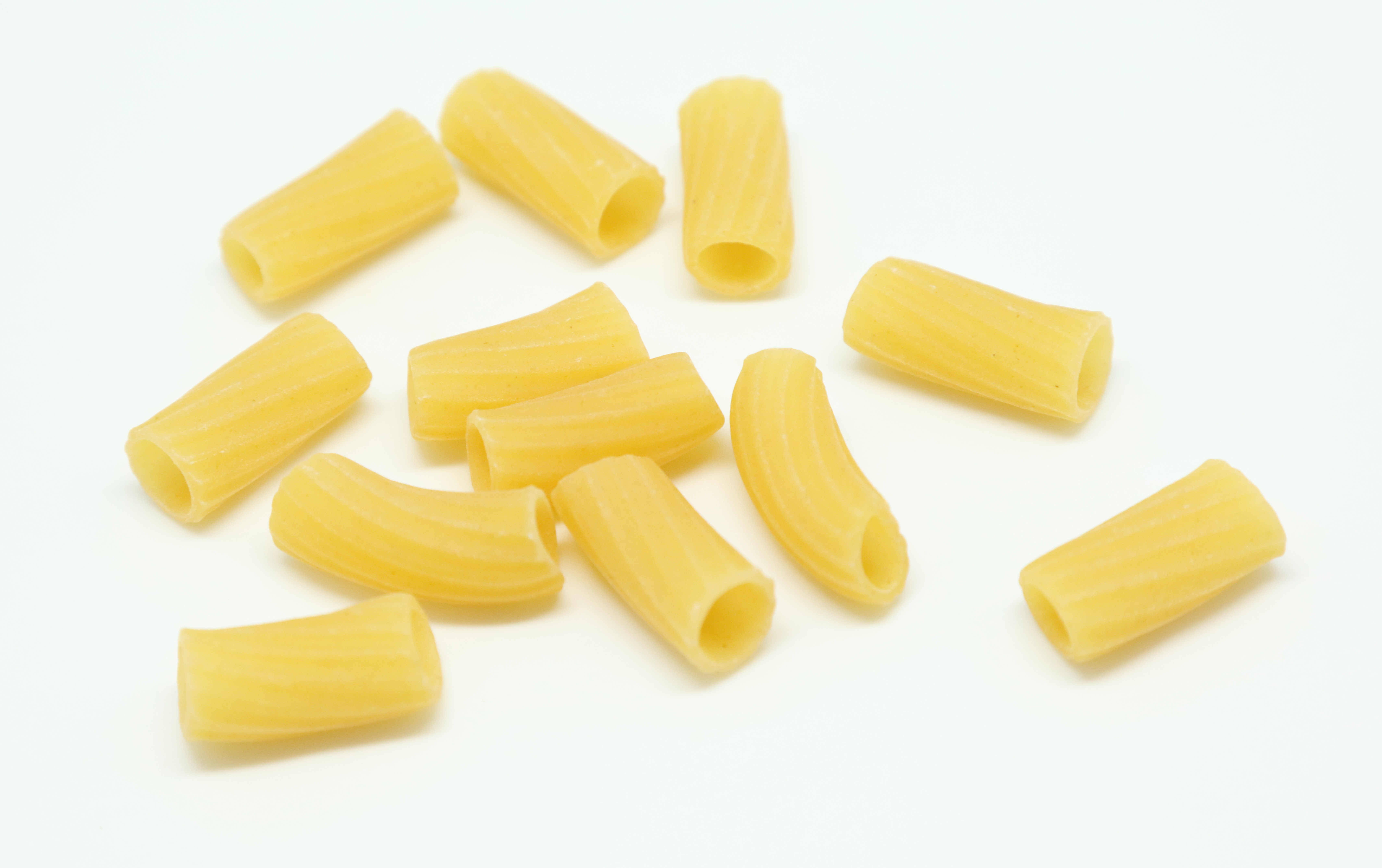 tortiglioni-type pasta